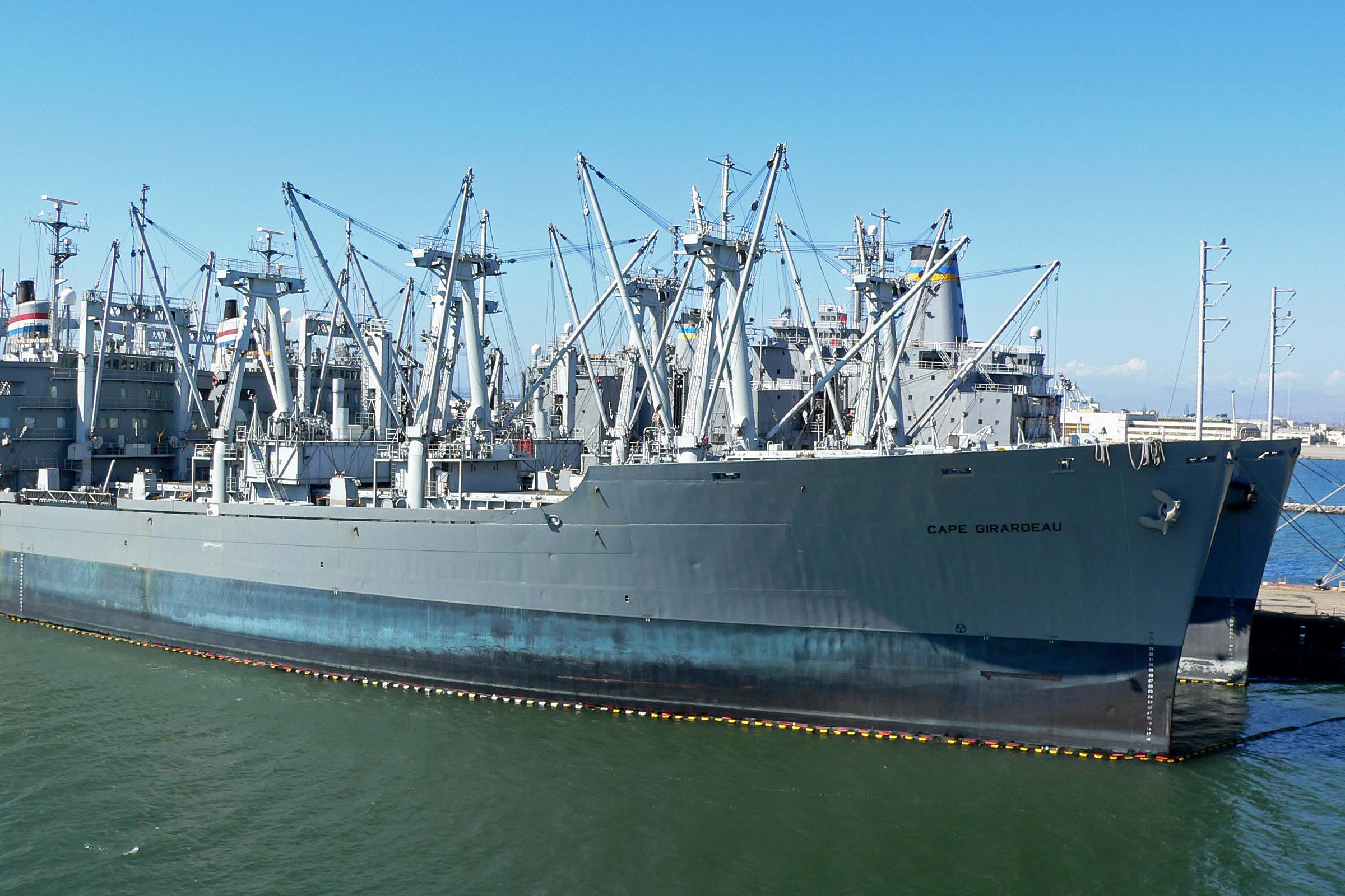 Photo of SS Cape Girardeau at Alameda